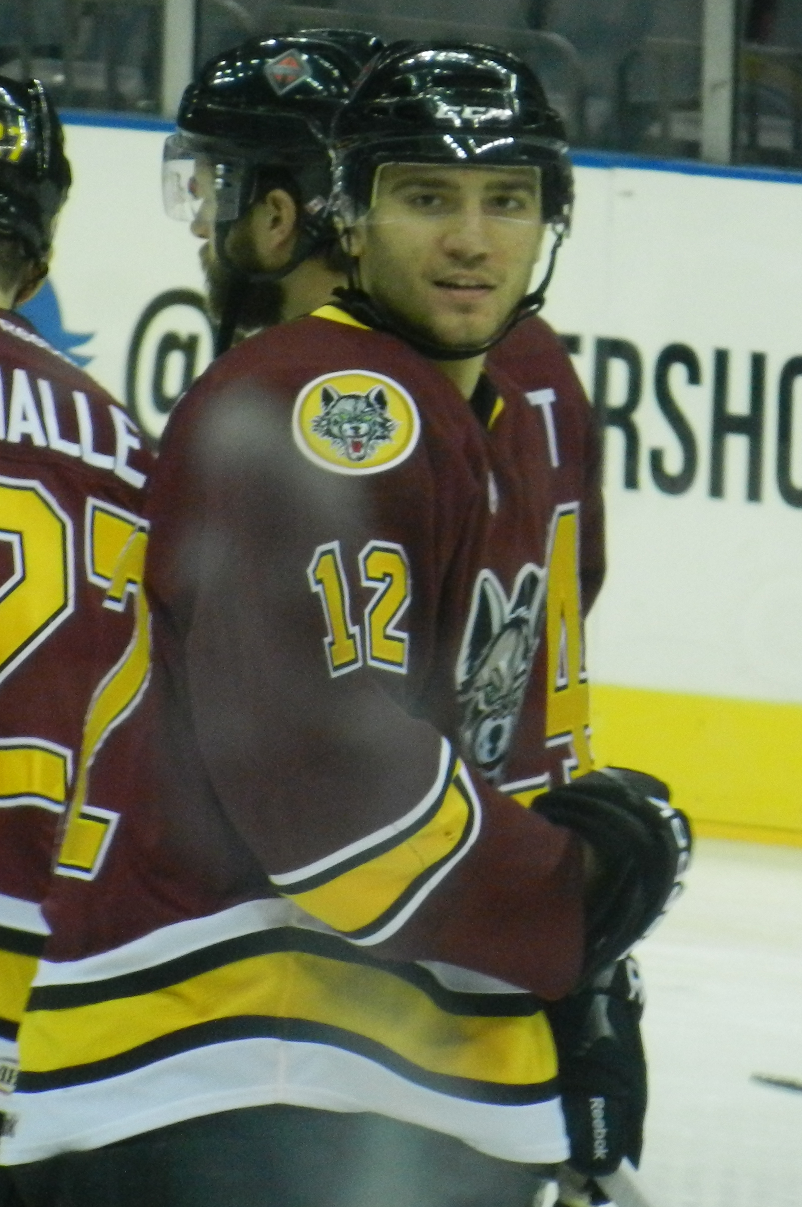 Chris Tanev playing for the Chicago Wolves during the 2012-13 AHL season